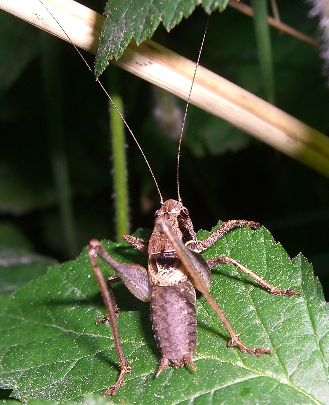 Description: Pholidoptera griseoaptera